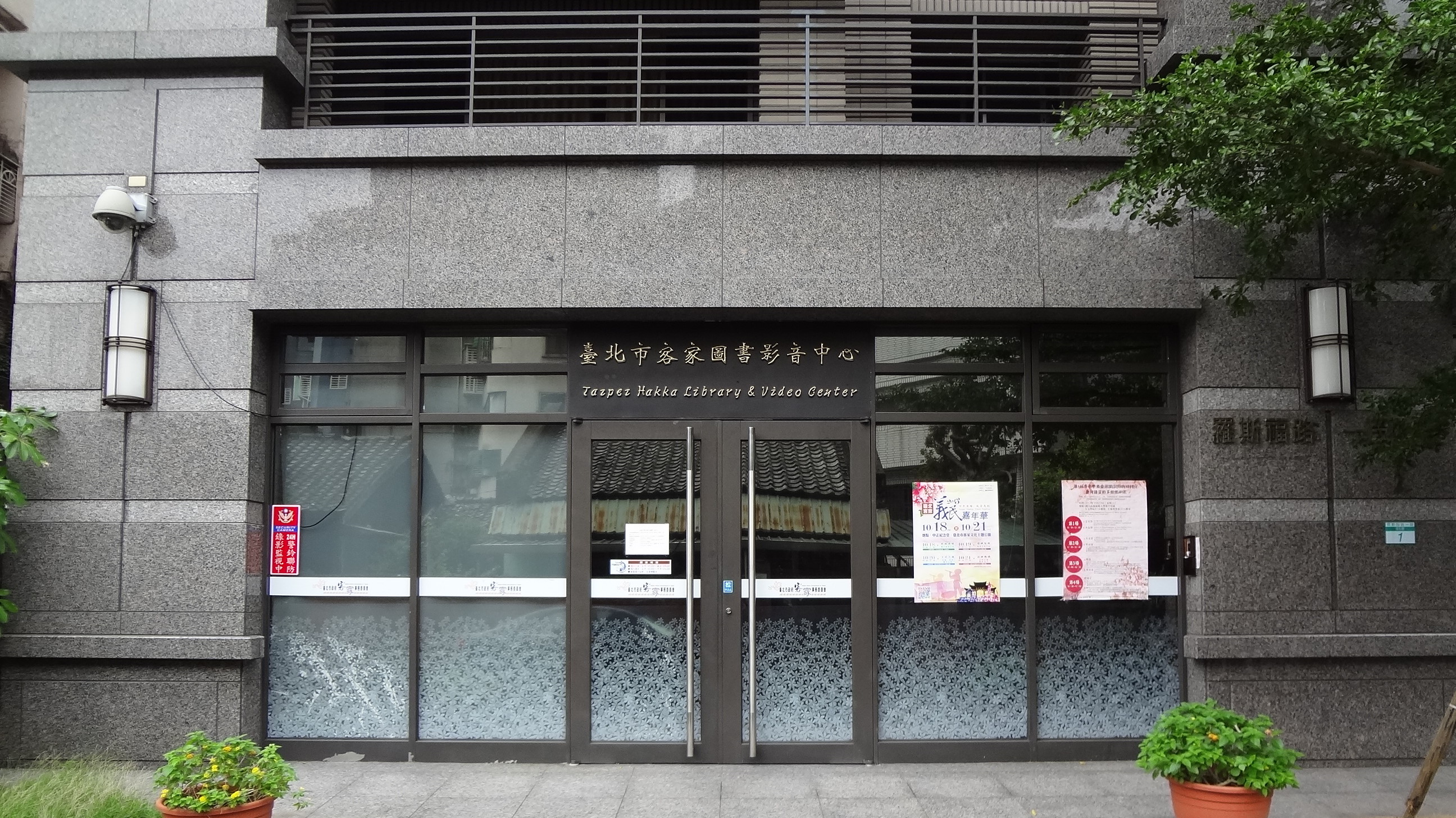 Taipei Hakka Library and Video Center